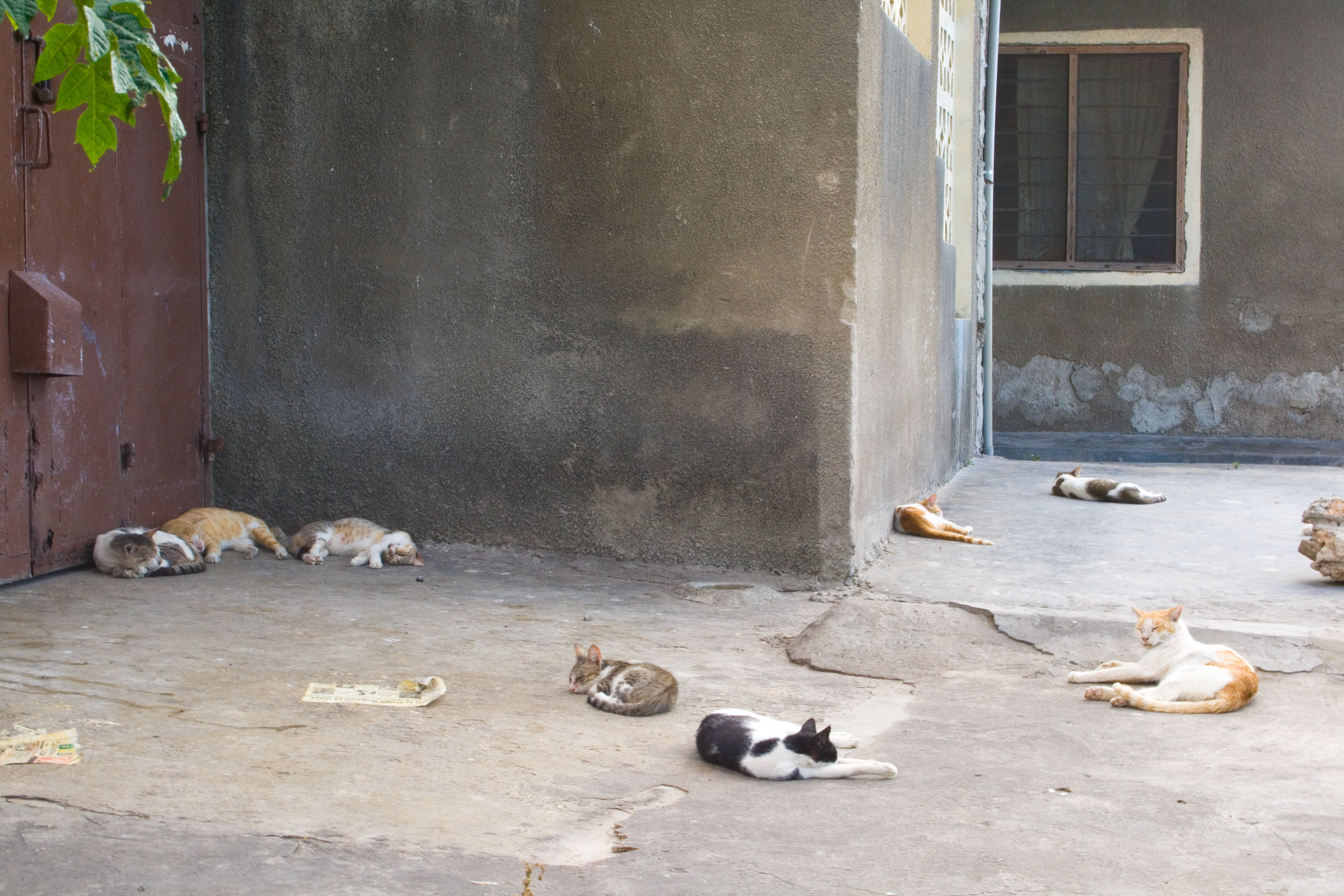 Cats, Stone Town, Zanzibar